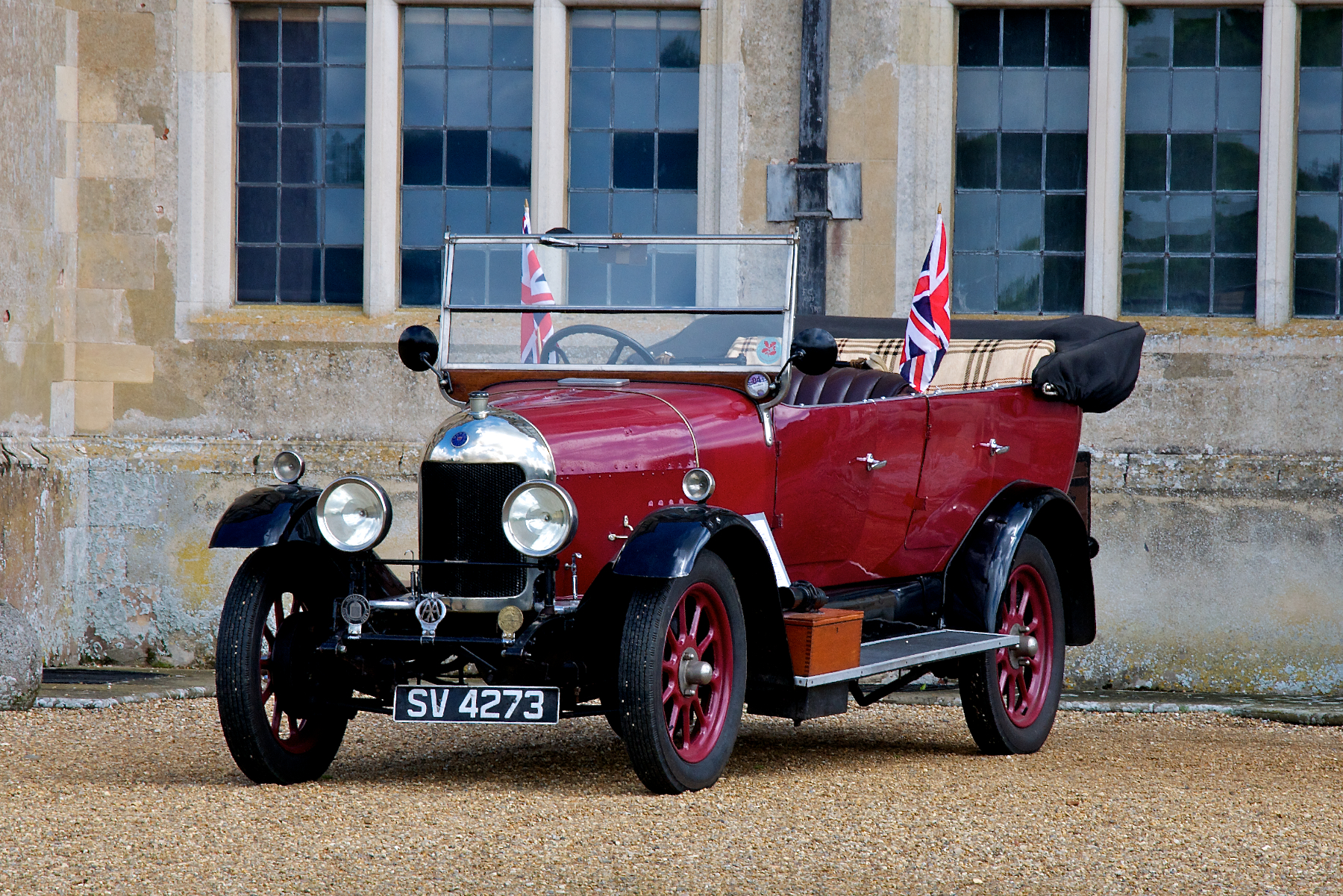 1925 Morris Oxford "Bullnose" four-seat Tourer, belonging to the proprietors of Felbrigg Hall, UK. 1465cc engineOutside the house, 1925 Morris Oxford Standing by.